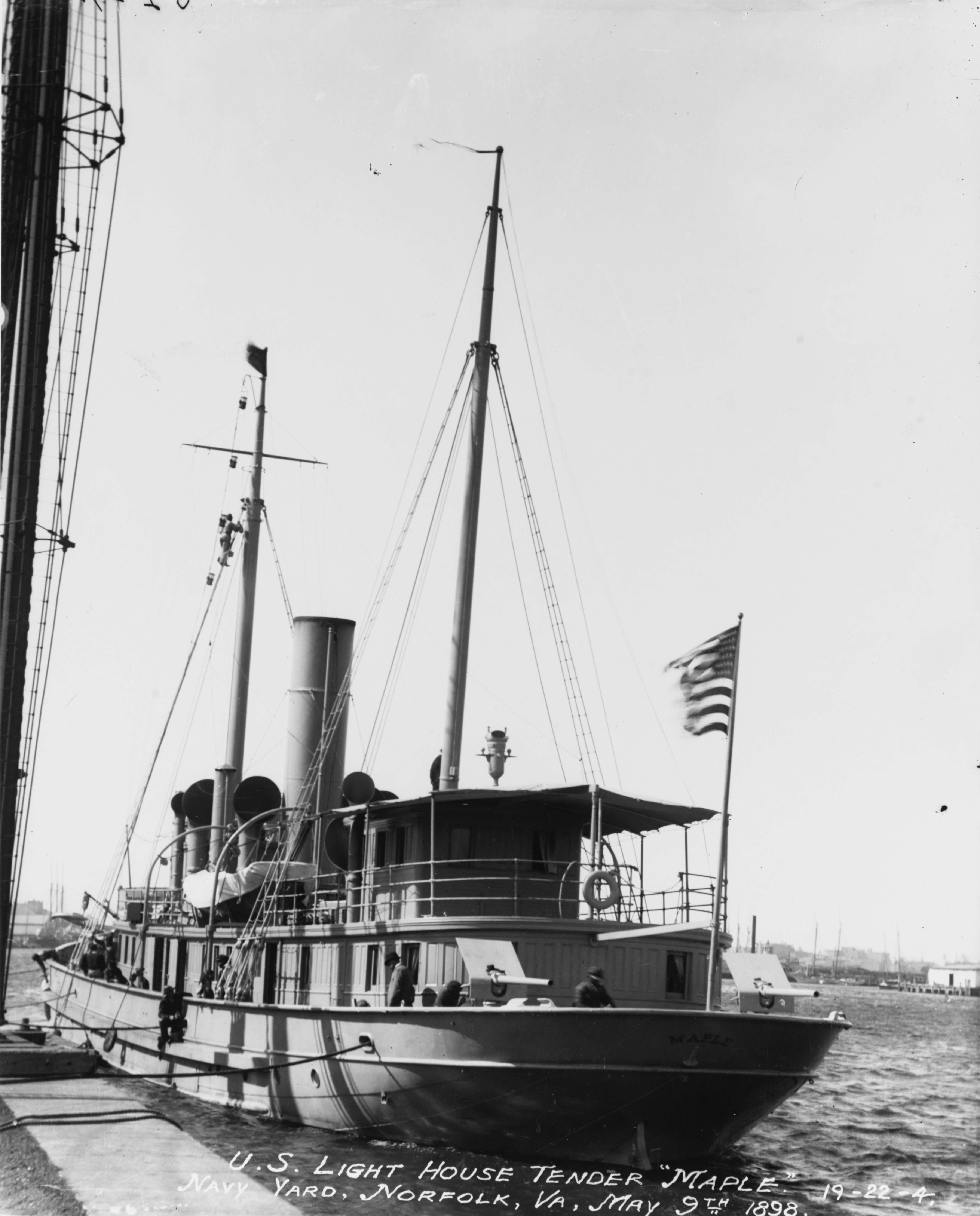 At the Norfolk Navy Yard, Portsmouth, Virginia, 9 May 1898. Photograph from the Bureau of Ships Collection in the U.S. National Archives.